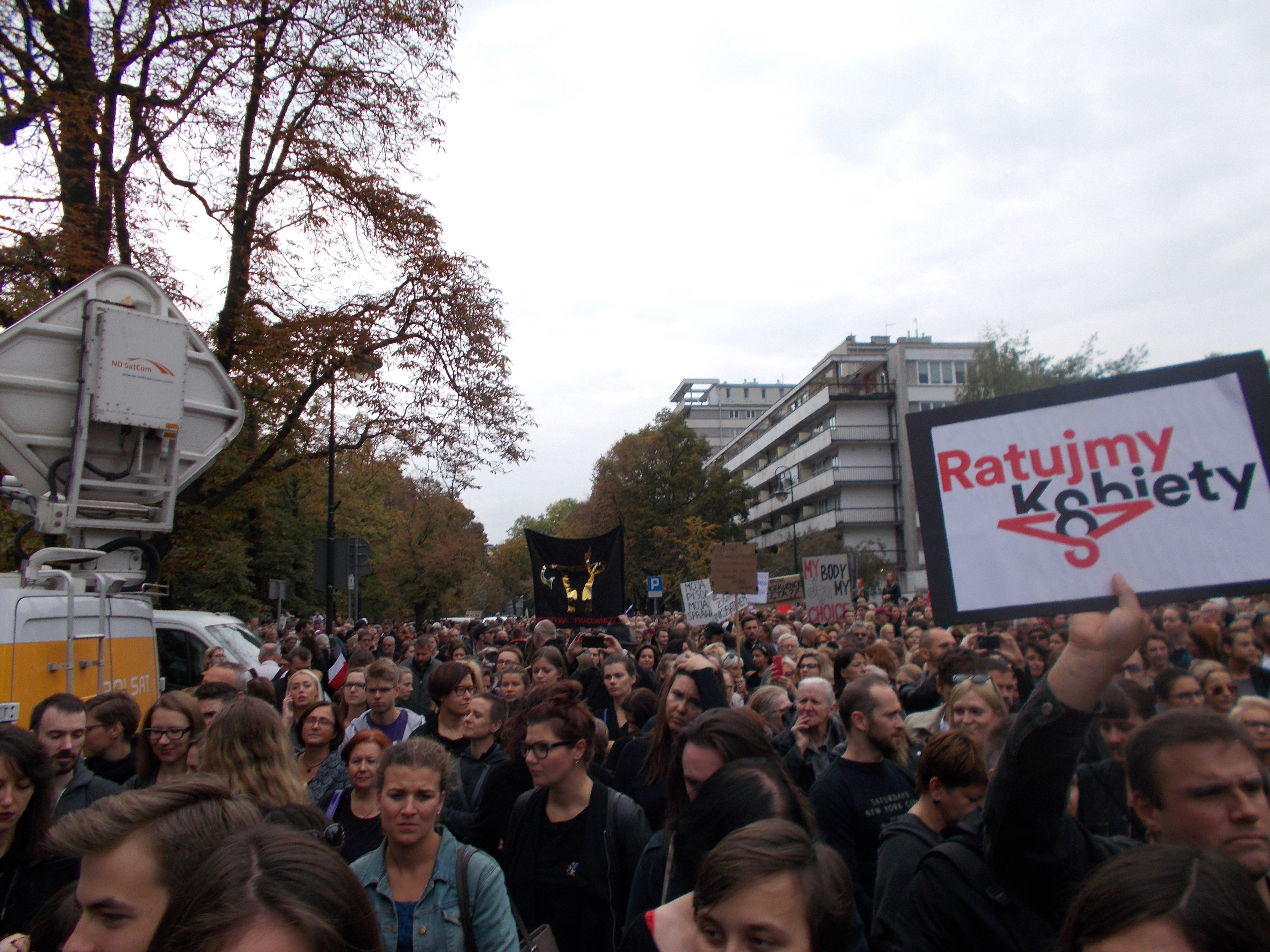 Black protest of initiative Save the Women 2016 10 01 in Warsaw